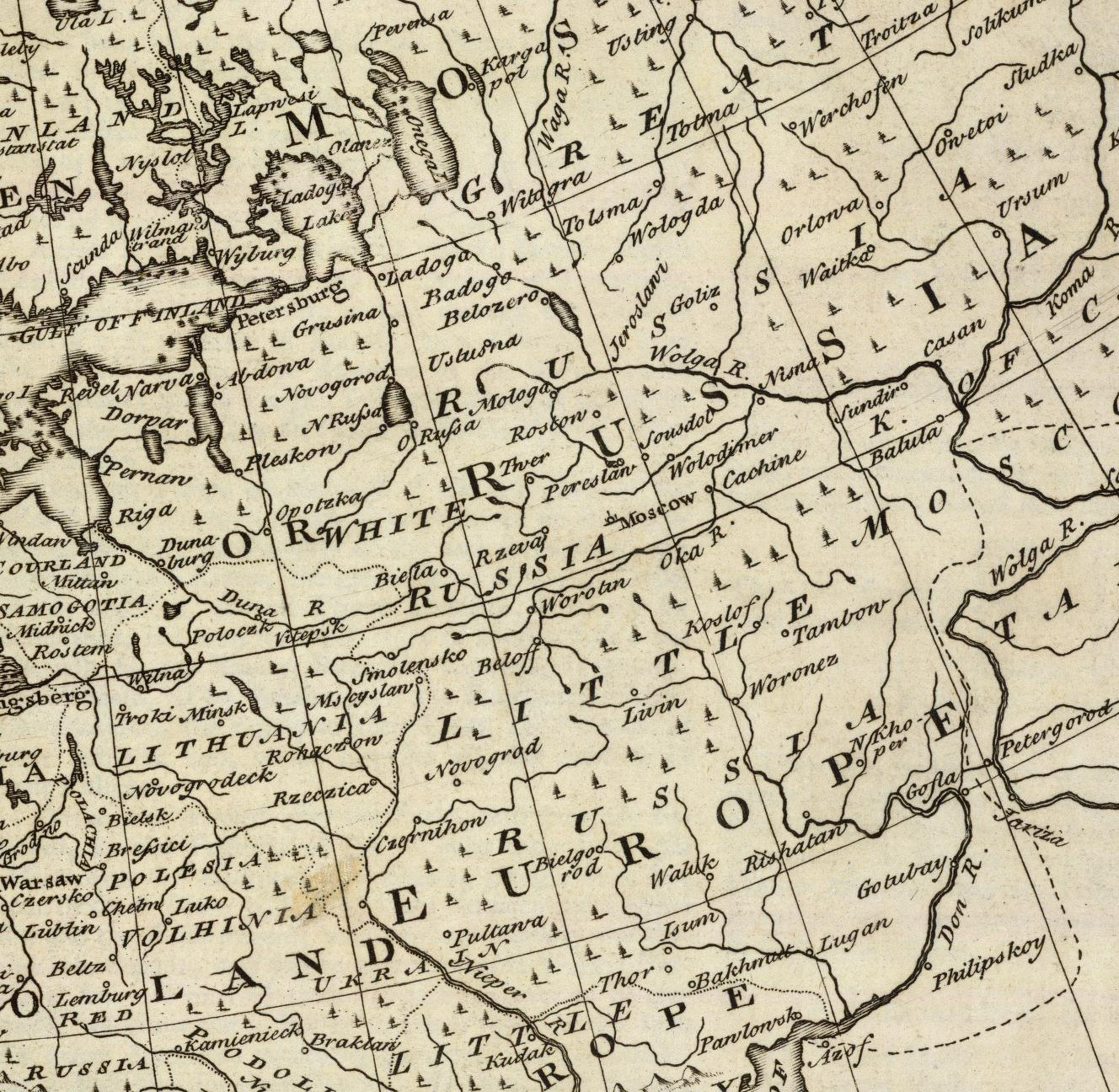 Great, Little and White Russias in 1747